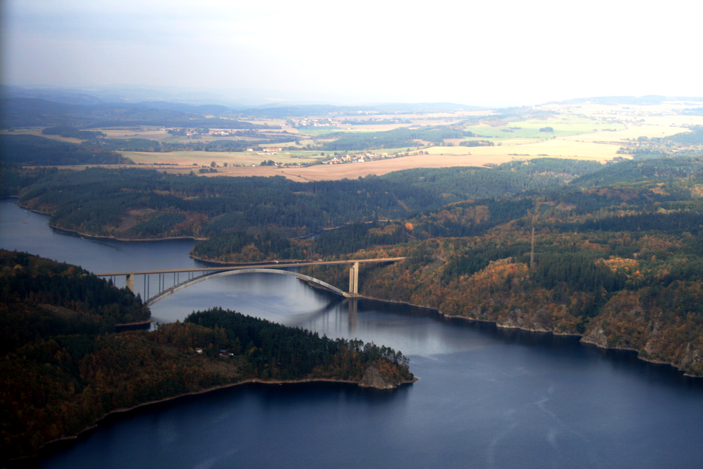 Air photo of bridge Žďákovský most over Vltava river, south Bohemia, Czech Republic